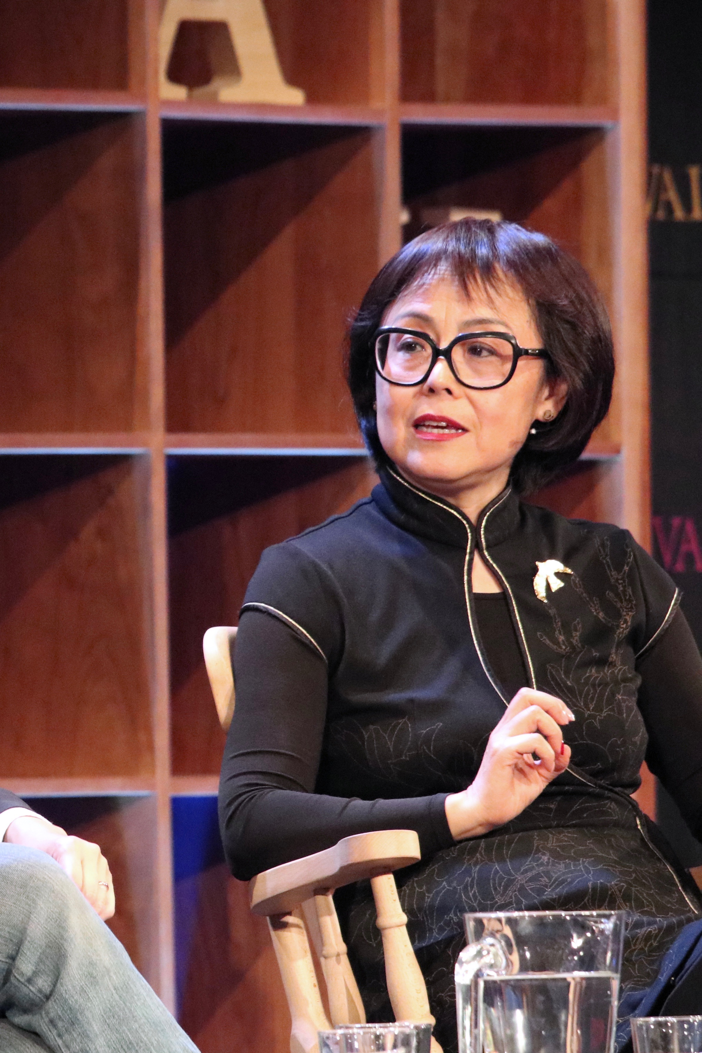 Hay Festival 2016 - Xin Ran